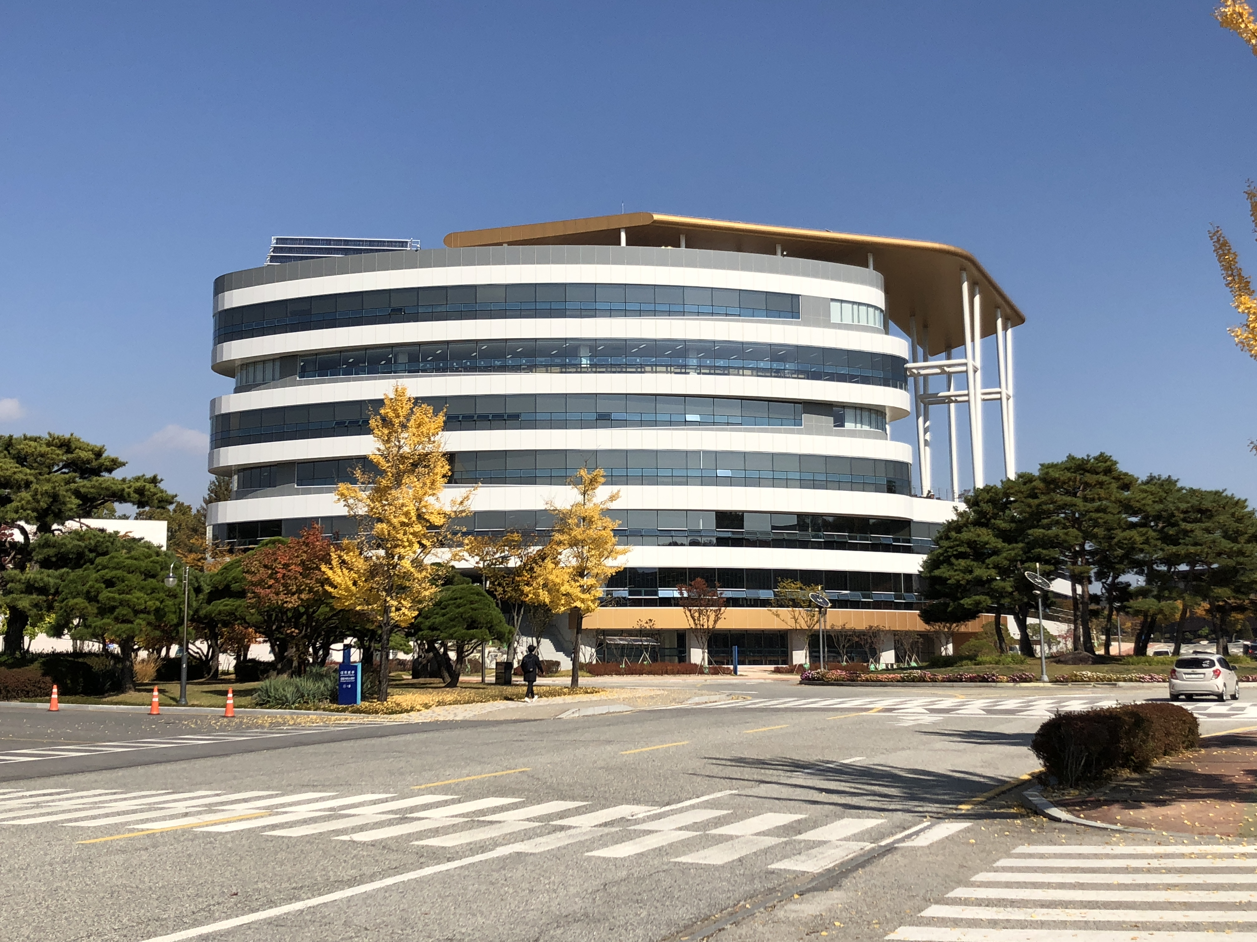 New university library building at KNUE campus.